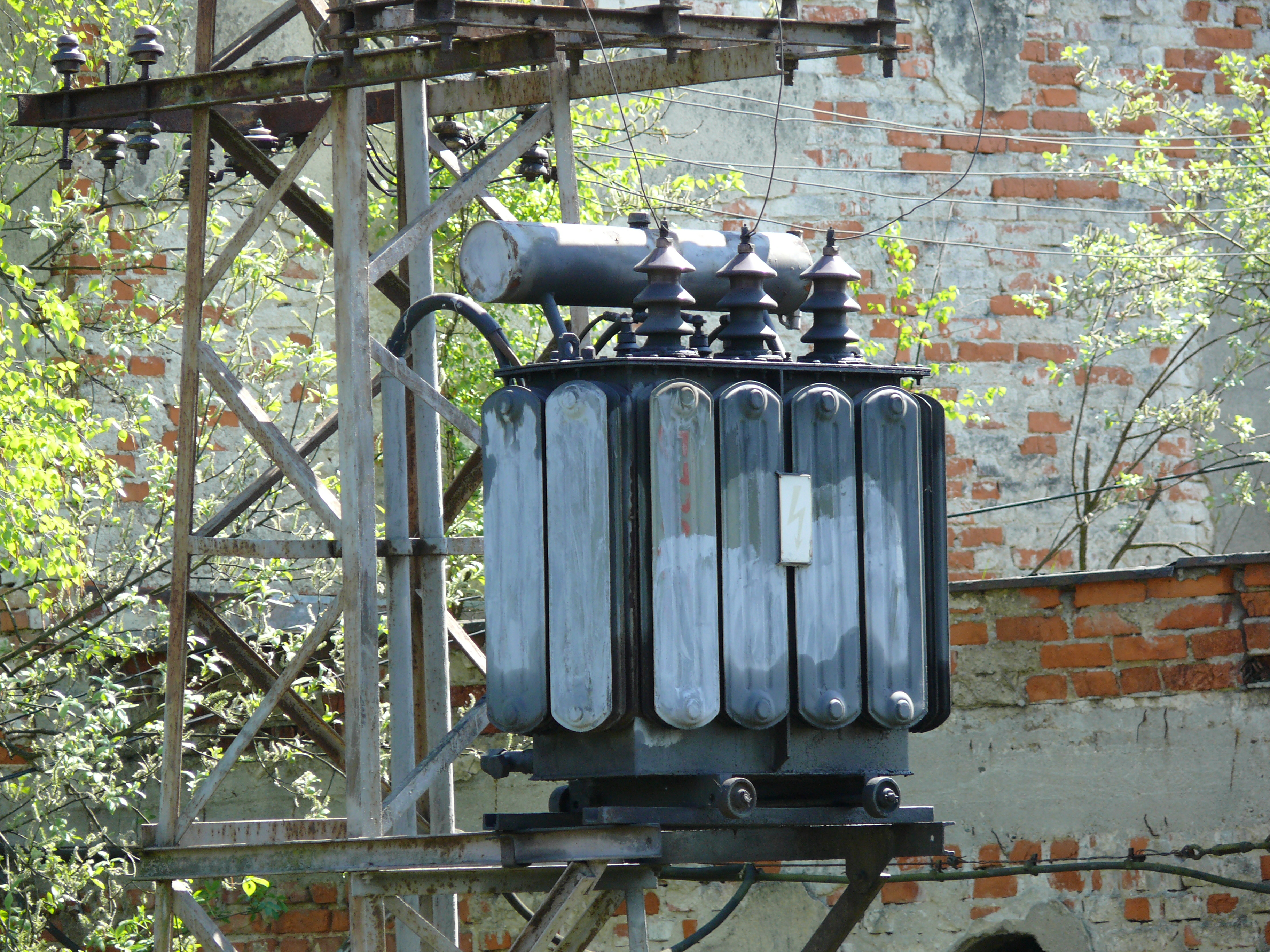 Transformer, town Považská Bystrica, Slovakia.